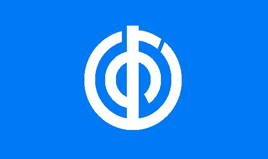 Flag of Ueno Gunma